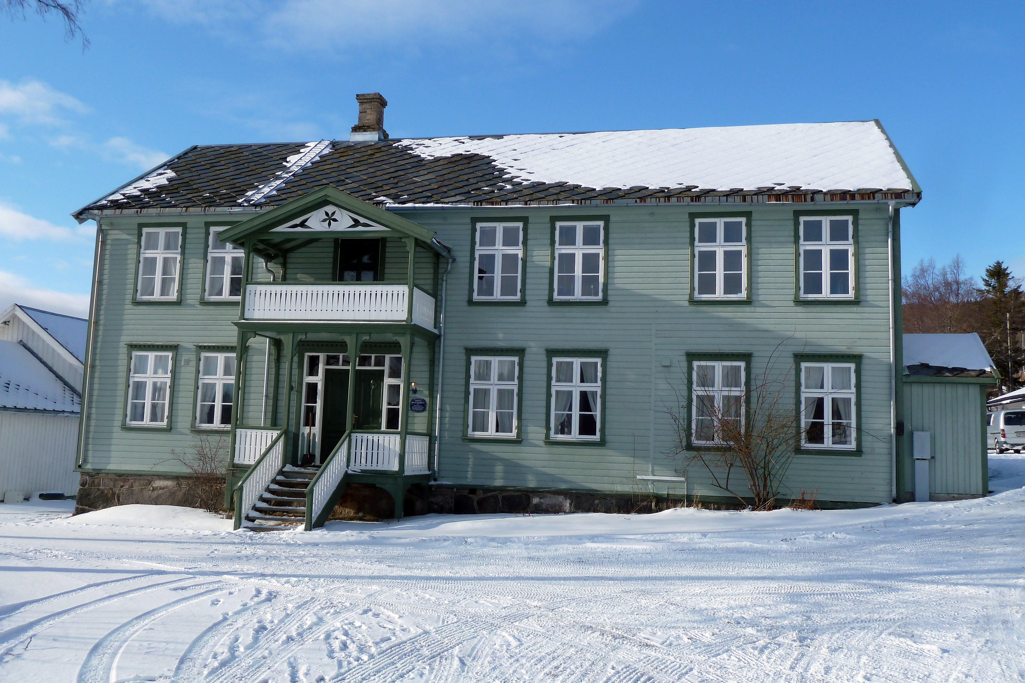 Skogheim gård (mansion/farm), a cultural heritage in Hamarøy in Northern-Norway, was drifted by the author Knut Hamsun 1911-1917.